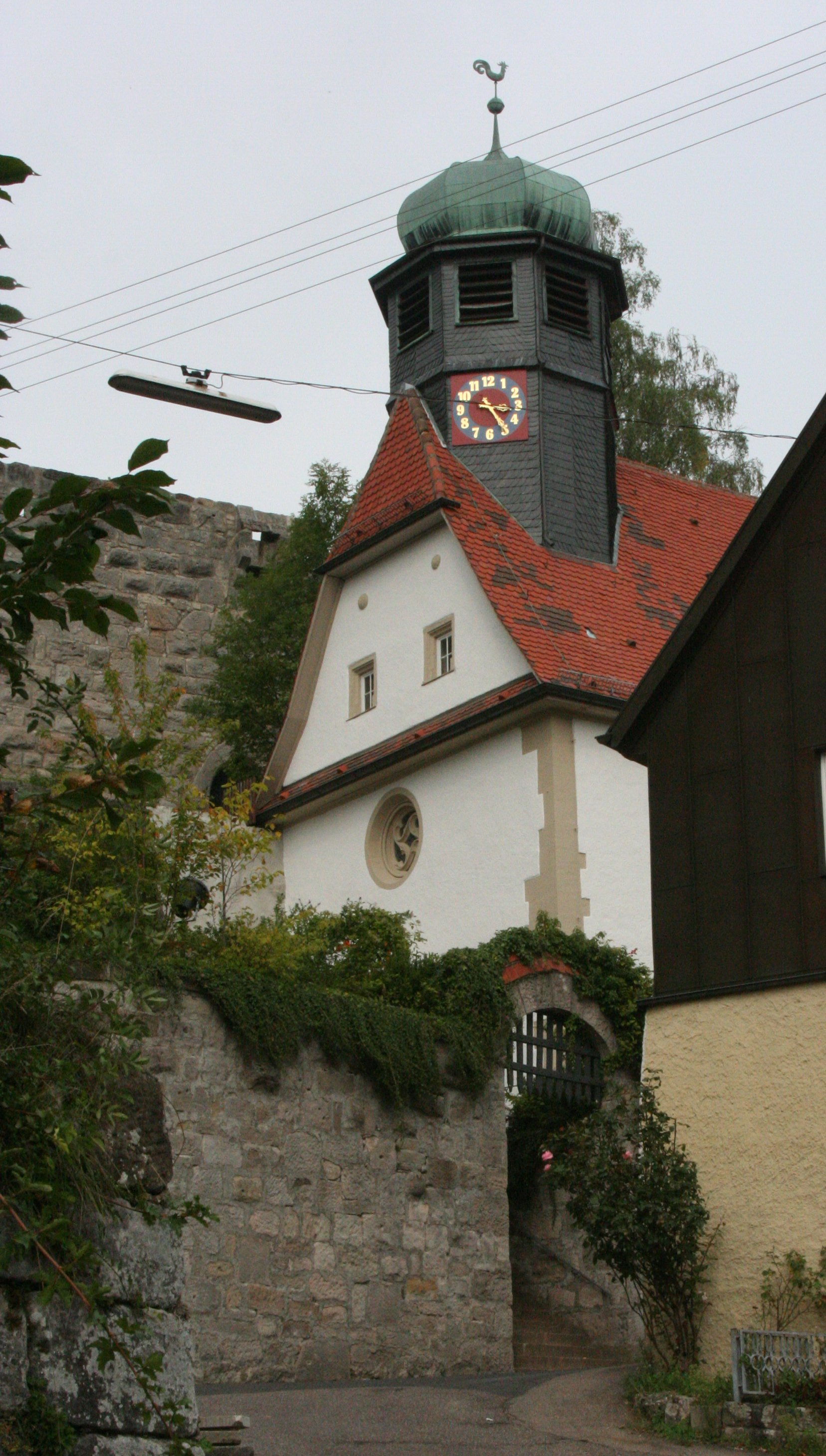 The protestant church in Maienfels